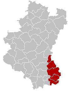 Map of Arlon District in province of Luxembourg, Belgium.Colors changed by me, based on work from Gebruiker:LennartBolks/kaartenhoekje also in PD.